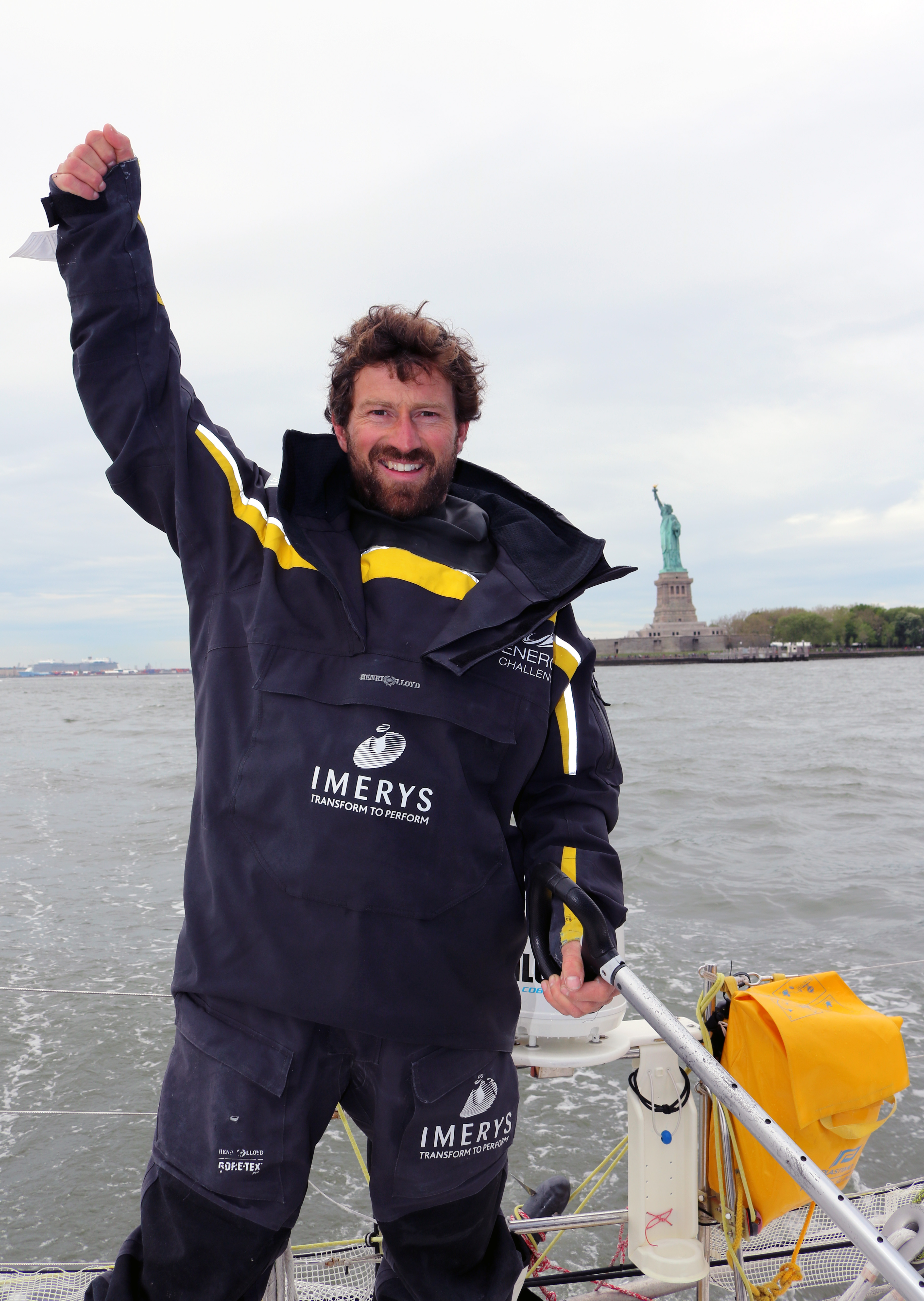 At 15:01:05 BST on Saturday, May 21, British skipper Phil Sharp racing Imerys, beat the odds to finish The Transat bakerly 2016 on the Class40 podium in third. Sharp covered a total of 3798nm of the Atlantic, with an average speed of 8.32 knots to finish third in the Class40 division. During his 19 days, 31 minutes and five seconds at sea, Sharp was subject to time penalties, burst spinnakers, ripped sails, power loss, the boat taking on water and finally a giant gaping hole in his mainsail, but the skipper dealt with every challenge the race had to throw at him - determined to make it to New York.